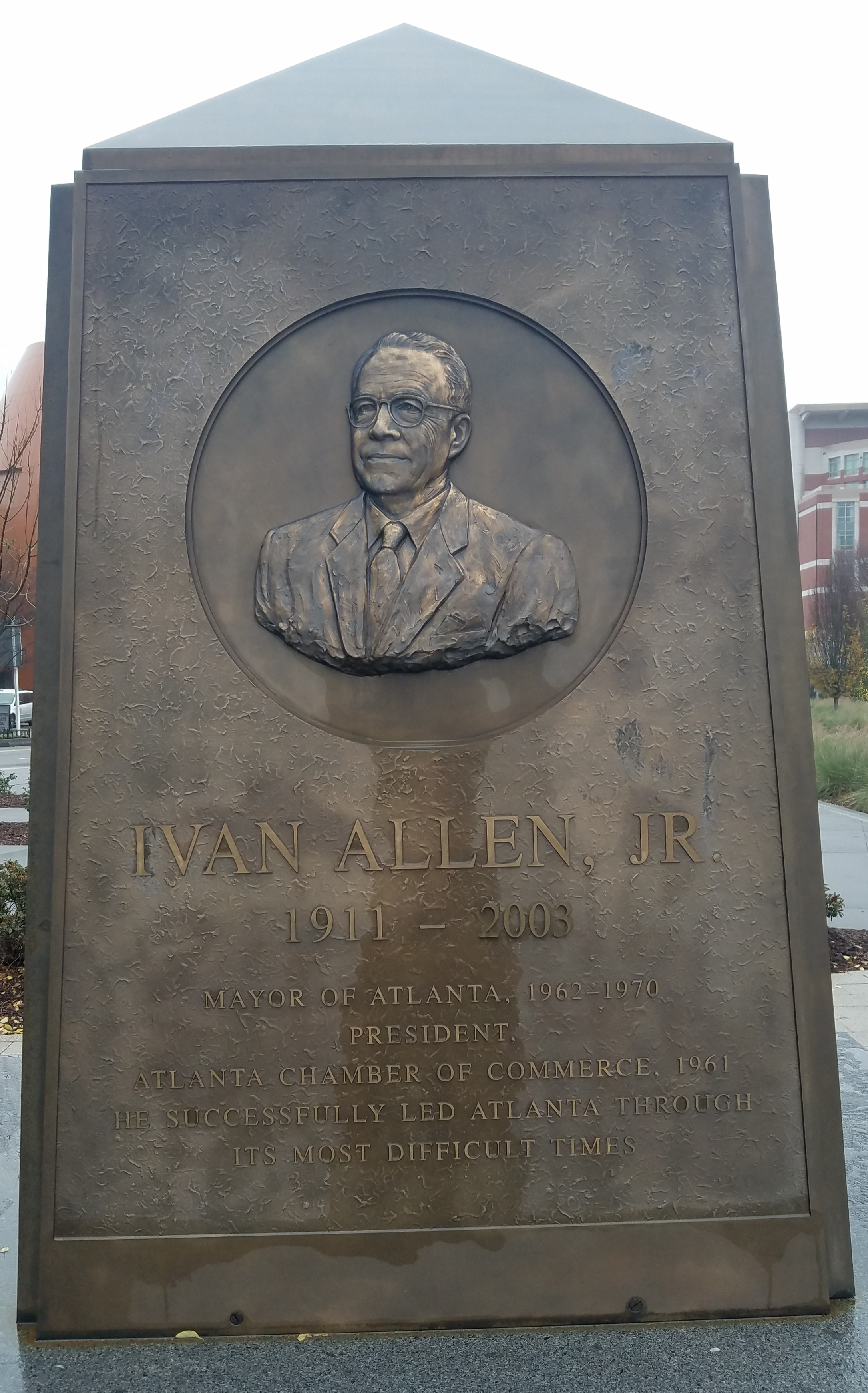 Ivan Allen, Jr. side of the Allen family statue in Centennial Olympic Park.